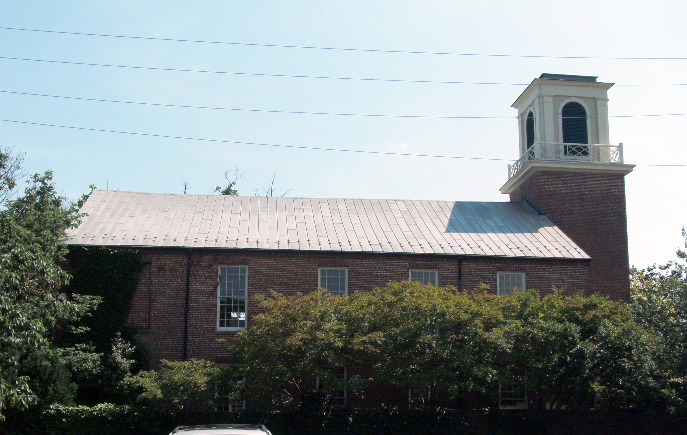 Cropped and lightened from an image I took for Wikipedia